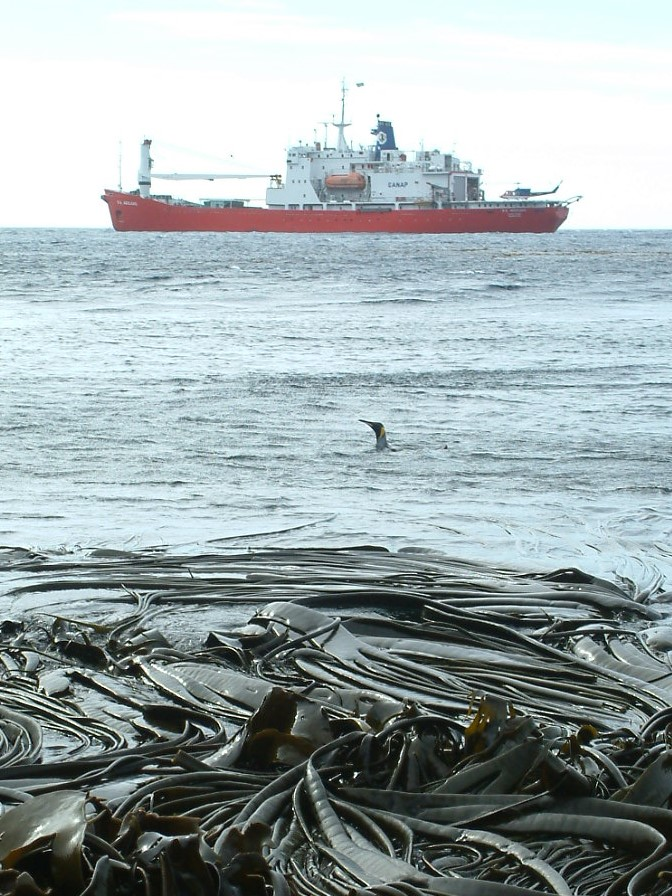 Antarctic icebreaker ship SA Agulhas off Marion Island in 2007. Foreground: bull kelp (Durvillaea antarctica) and swimming king penguin